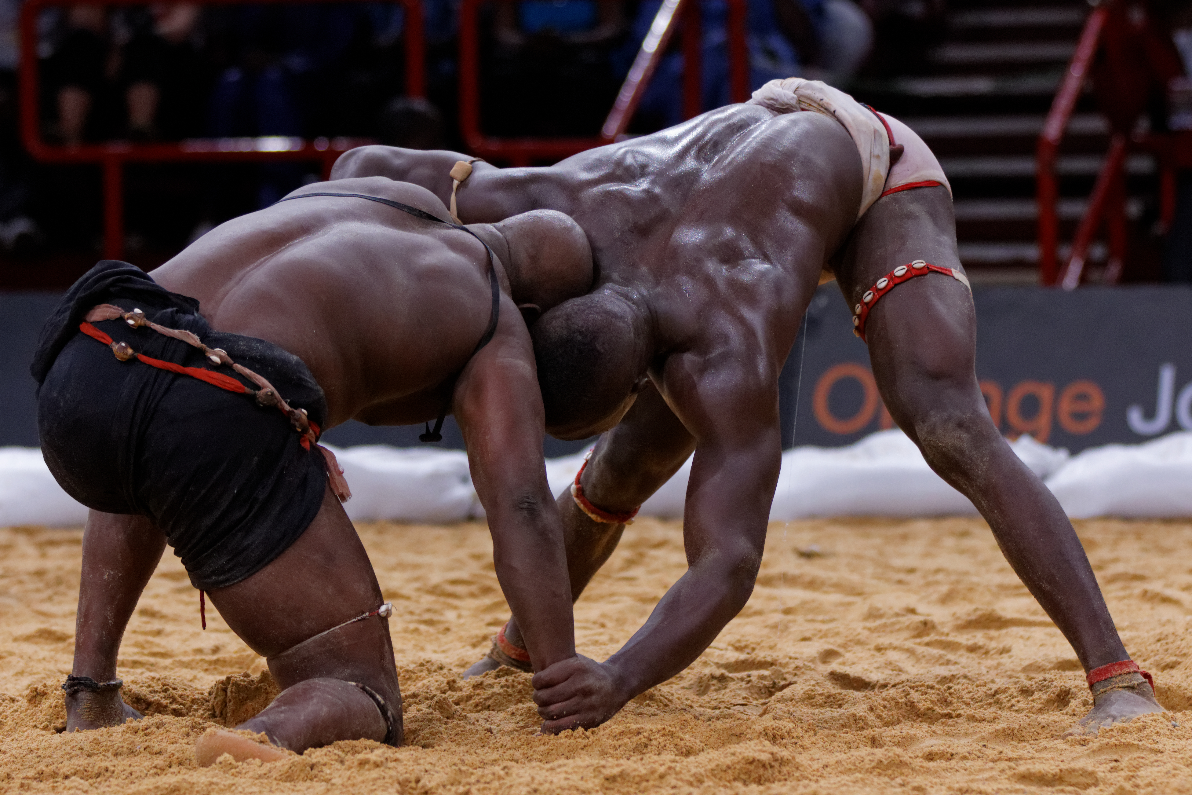 World African Wrestling world tour, Paris Bercy. Mame Balla vs Pape Mor Lô.